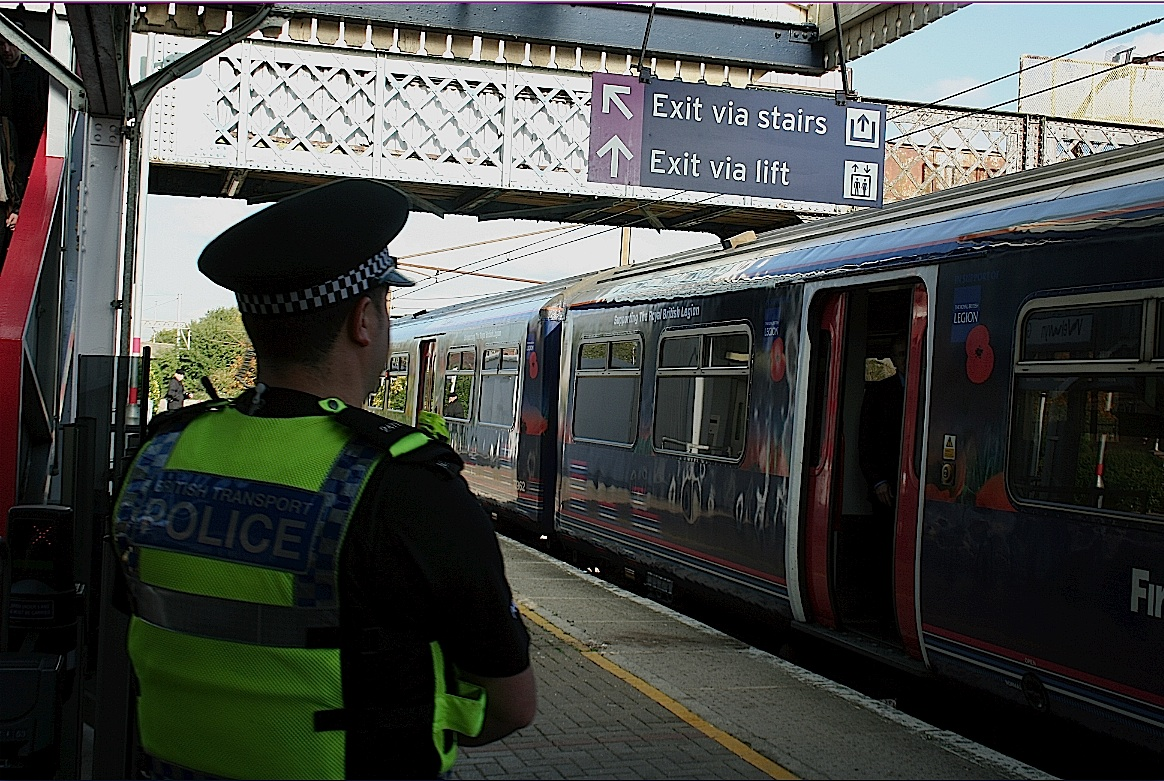 Looking after security on the UK railway network.